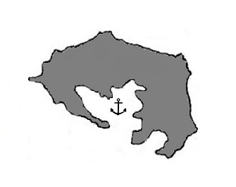 Outline of Perim Island